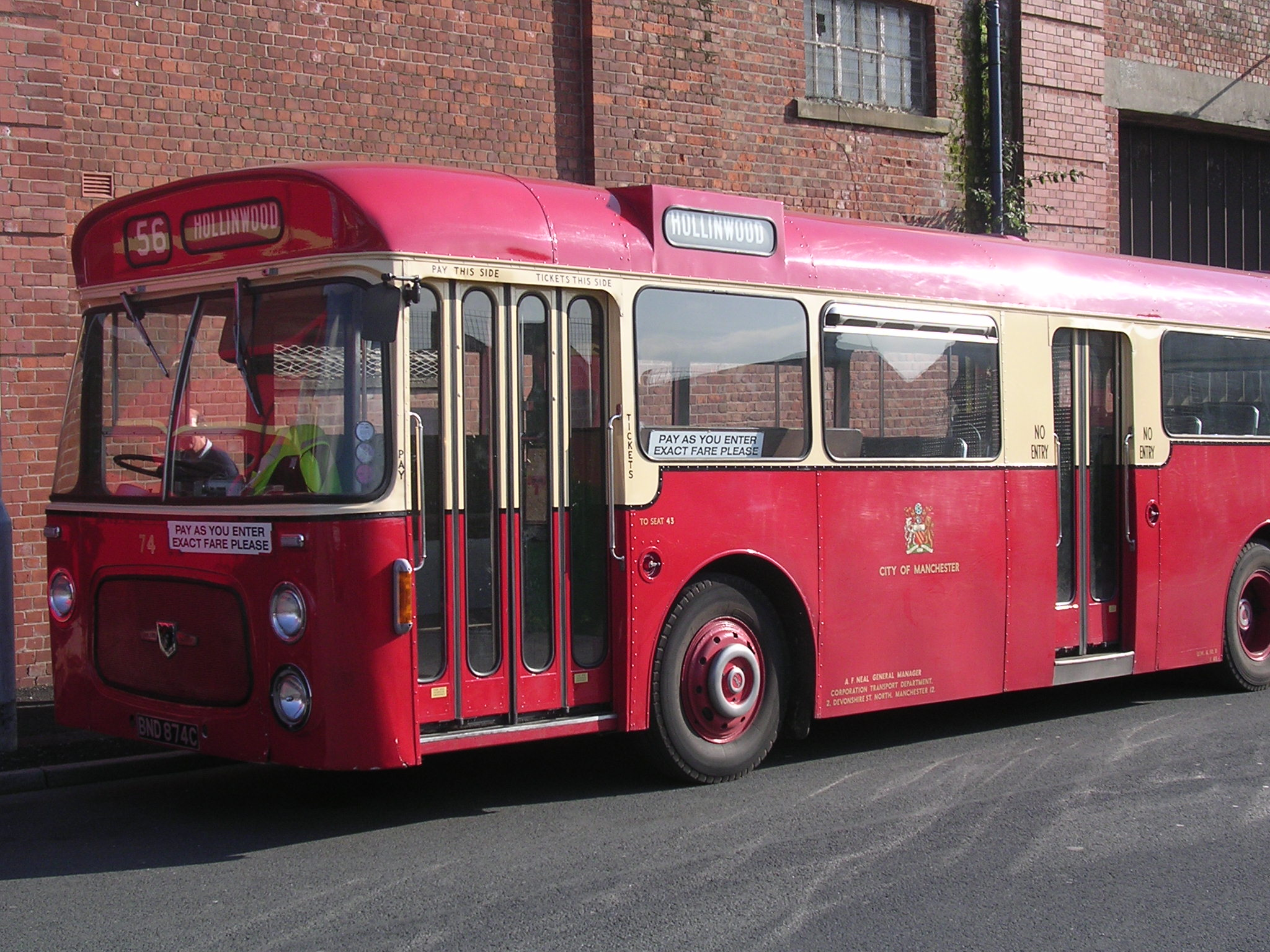 Leyland Panther Cub - 1965